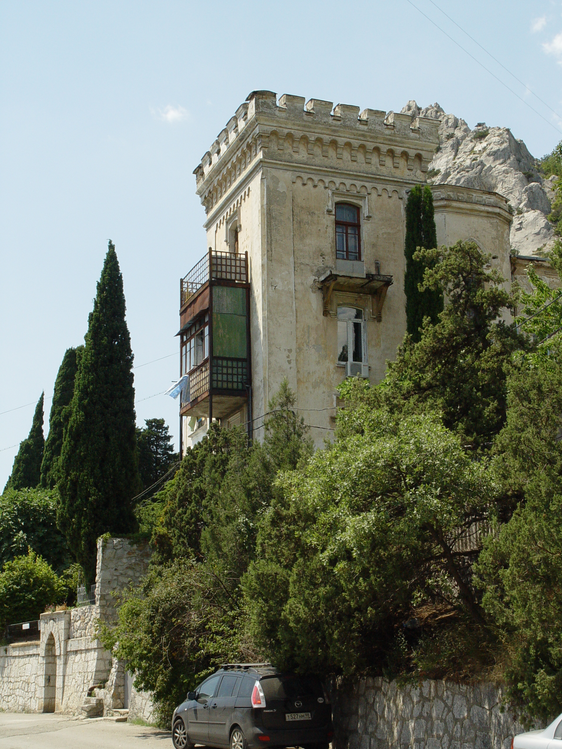 House in Simeiz (Crimea)